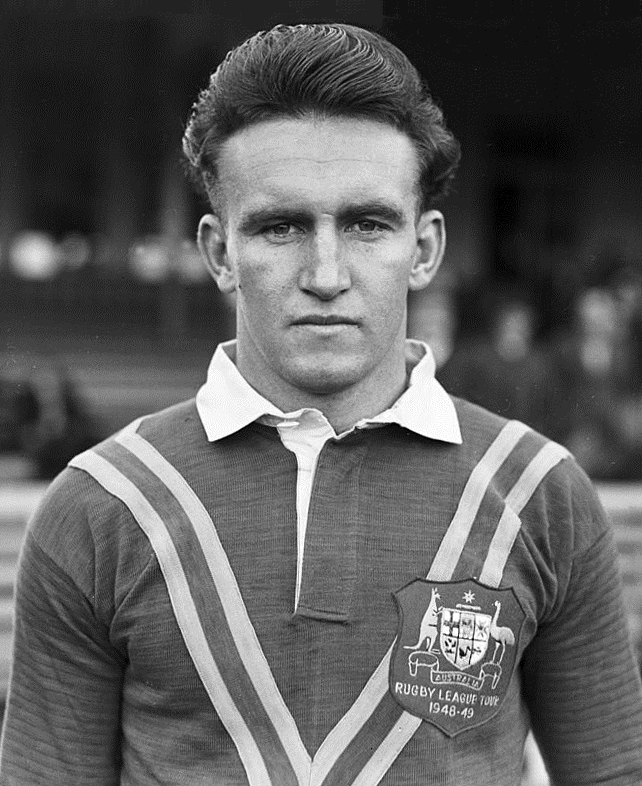 Robert Dimond of the Australian Rugby League team at Sydney Cricket Ground, 28 July 1948.